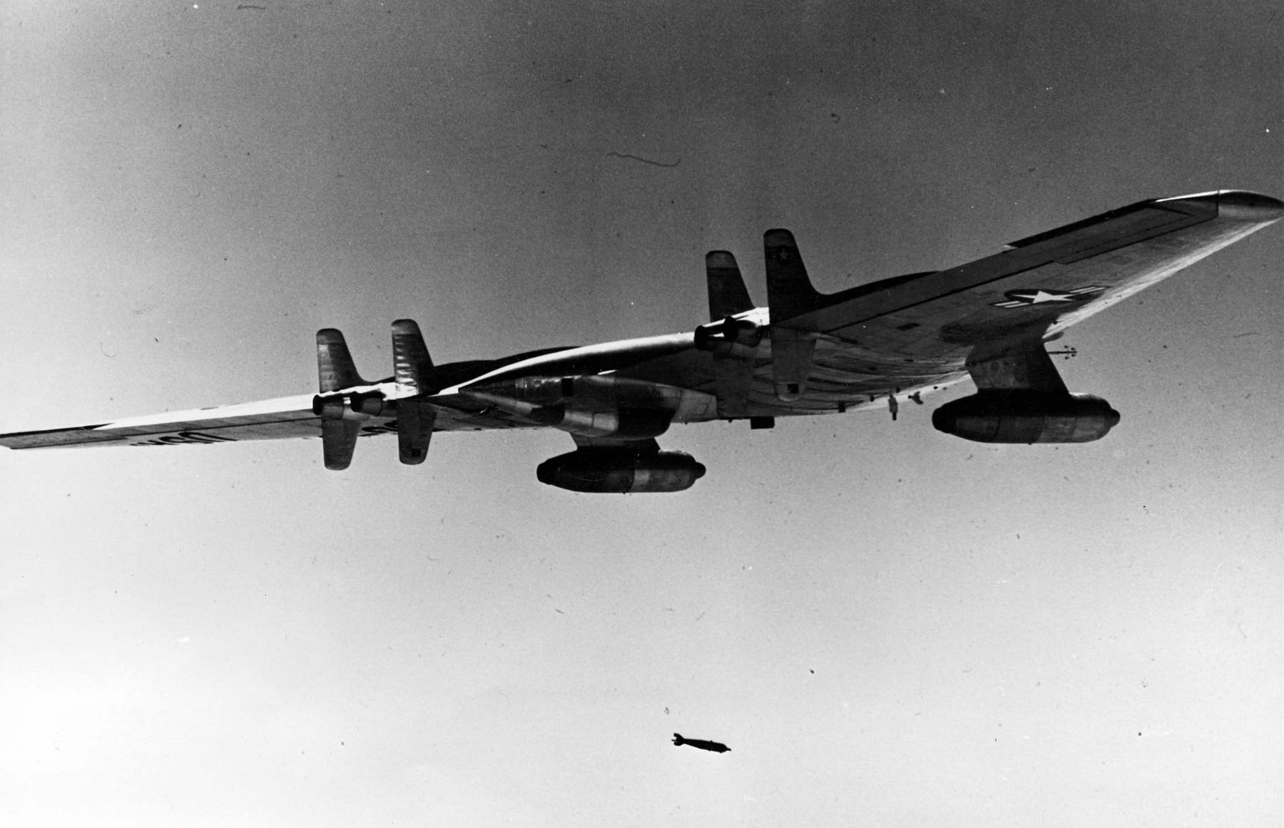 Northrop YRB-49A in flight dropping a photo flash bomb